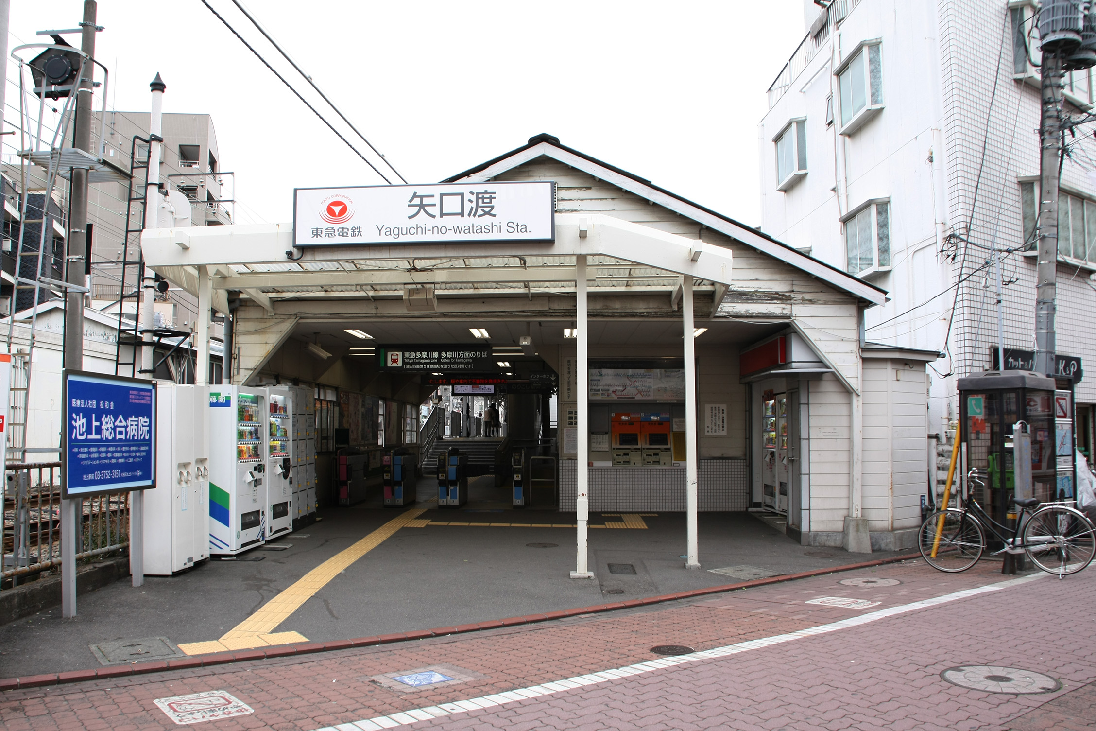 Yaguchi-no-watashi Station